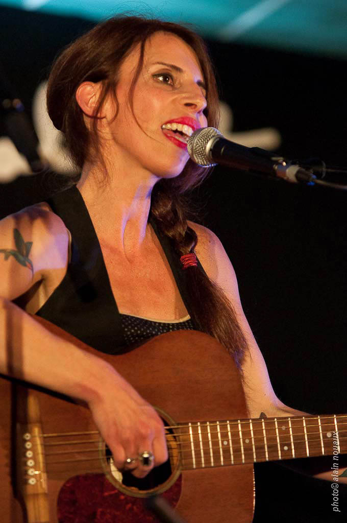 Fredda live